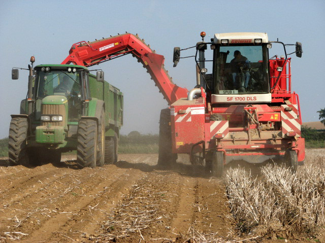 Working in tandem. – What at first glance looks like stubble are the dried remains of flailed potato vines. On maturity of the tubers the potato vines are killed in order to terminate growth and hence control tuber size, and to set skin, which reduces skinning and bruising during harvest, and shrinkage in storage. The most common method of vine killing is chemical desiccation. Sometimes a flail vine shredder (982636, 982683) is used, an implement consisting of varying knife lengths to accommodate the contours of the hill and furrow, producing a very rapid vine kill by mechanically removing all but about 15 centimetres of the vines which are then removed by chemical desiccation. – The crop is now ready for harvesting and a root crop harvester (red) can be seen working in tandem with a trailer-pulling tractor (green). Most potato harvesters operate by cutting through the ground with a digger blade and forcing the dirt and potatoes over a series of chains that transport the potatoes while removing the dirt and vines. The potatoes are elevated by the chains and other conveyers so that they can reach a sufficient height to be dumped into a truck or trailer and hauled away. This process requires constant cooperation between the harvester and the tractor running side by side.